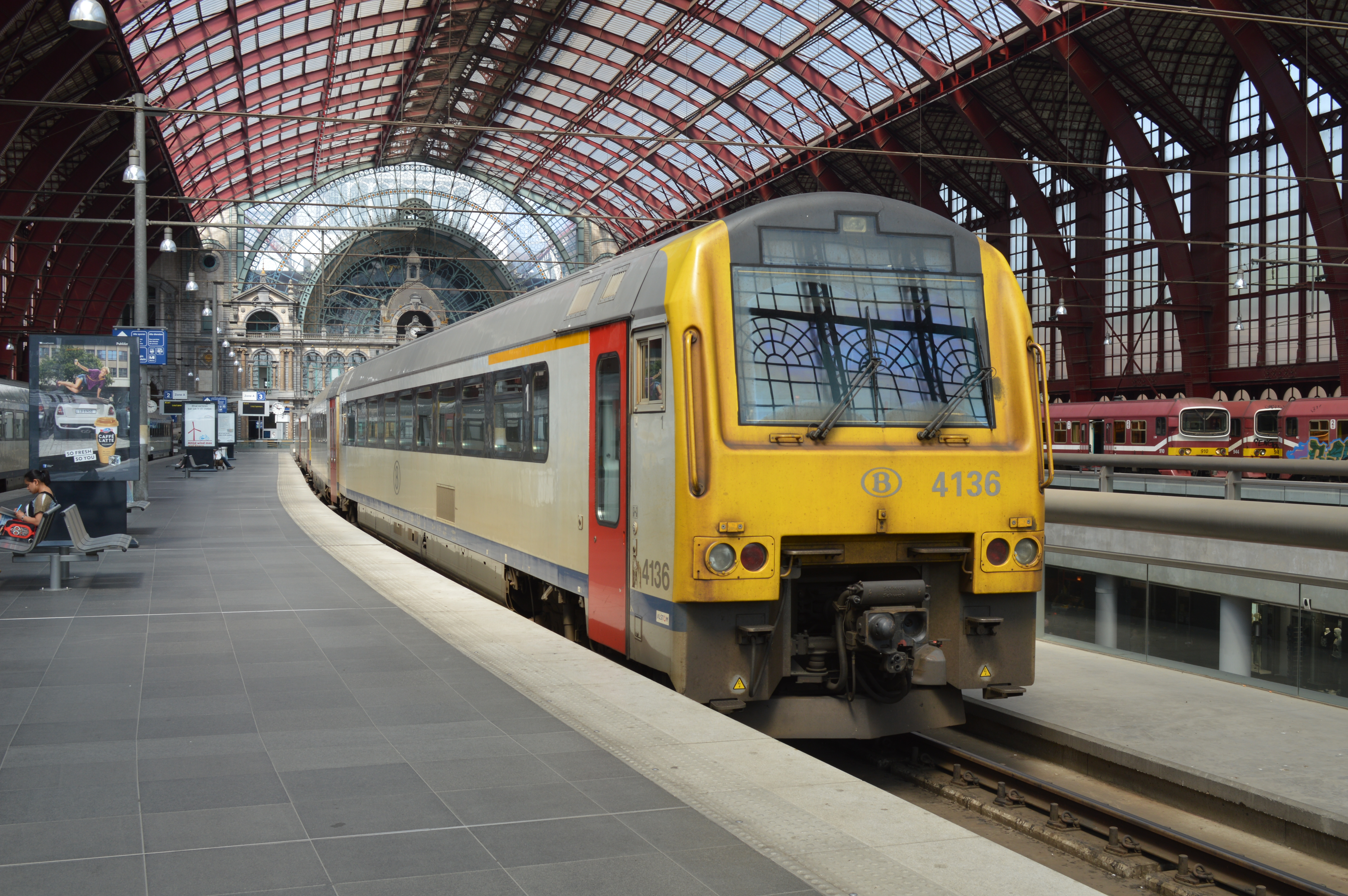 The "top" floor of Antwerpen-Centraal station showing the roof and elegant glass windows of the original station. This section of the station is utilised for mainly local services serving lines to Neerpelt, Turnhout etc. 2-car DMUs 4136 and behind 4191 are seen stabled between duties. These units are utilised on the hourly InterRegio (IR) service to Neerpelt.